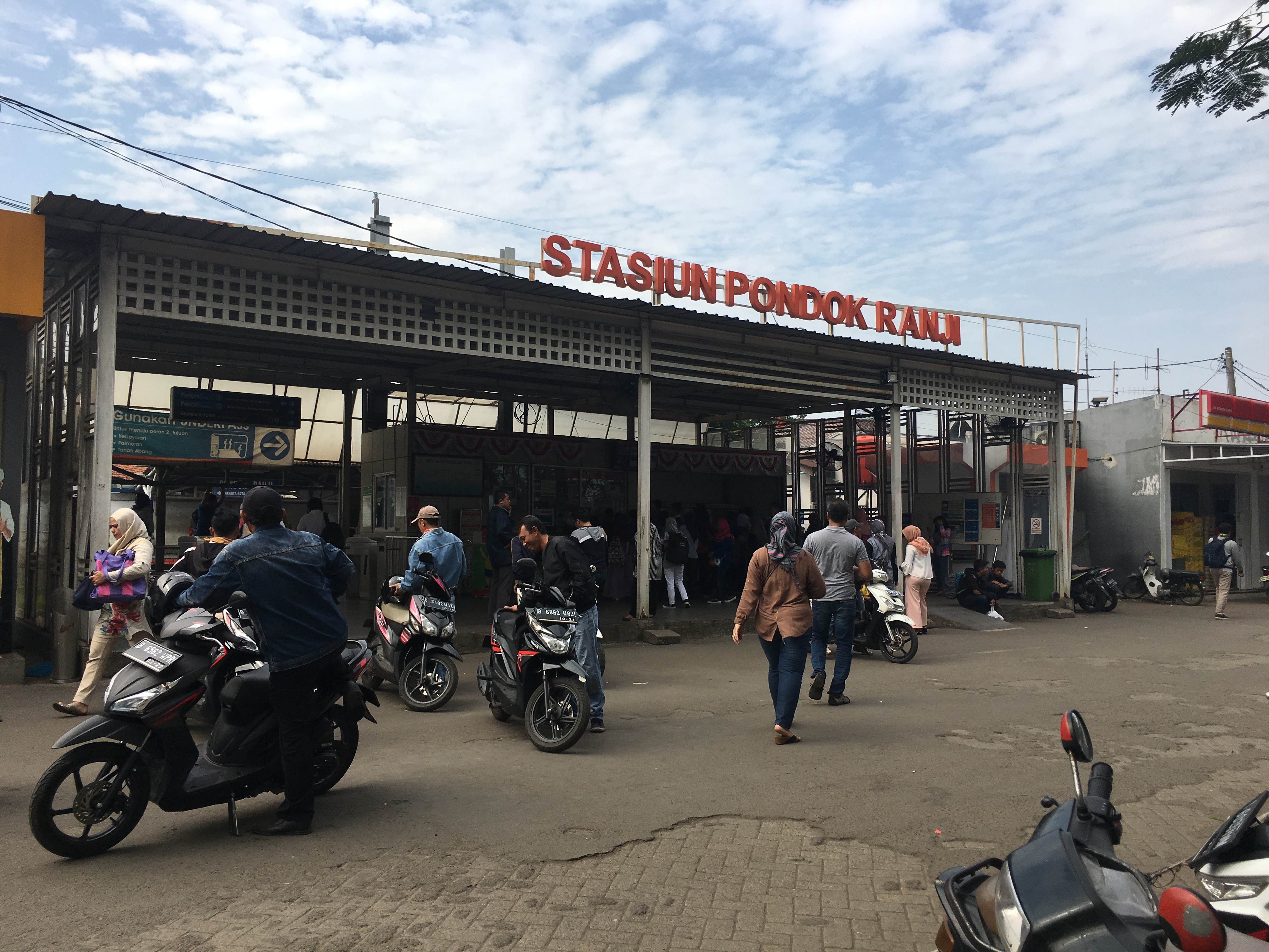 Front side of Pondok Ranji Station, South Tangerang, Indonesia.